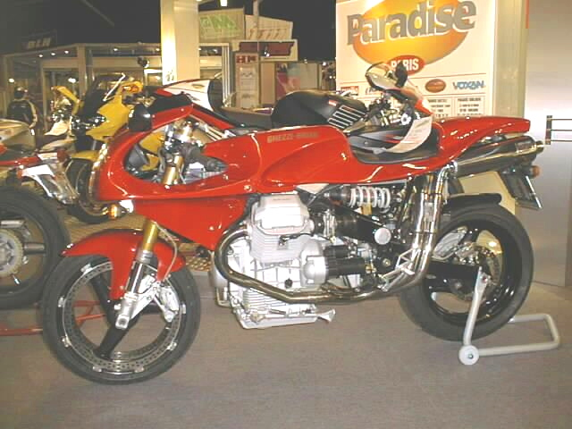 Ghezzi & Brian model SuperTwin 1100 based on a Moto Guzzi 1100 Sport V-twin engine. Engine: 1,064 cm³, 94 hp, injection. Dual 420 mm diameter perimeter front disc brake system (brand: Braking). The swingarm and the frame box are manufactured by Ghezzi & Brian. Total weight: 210 kg.